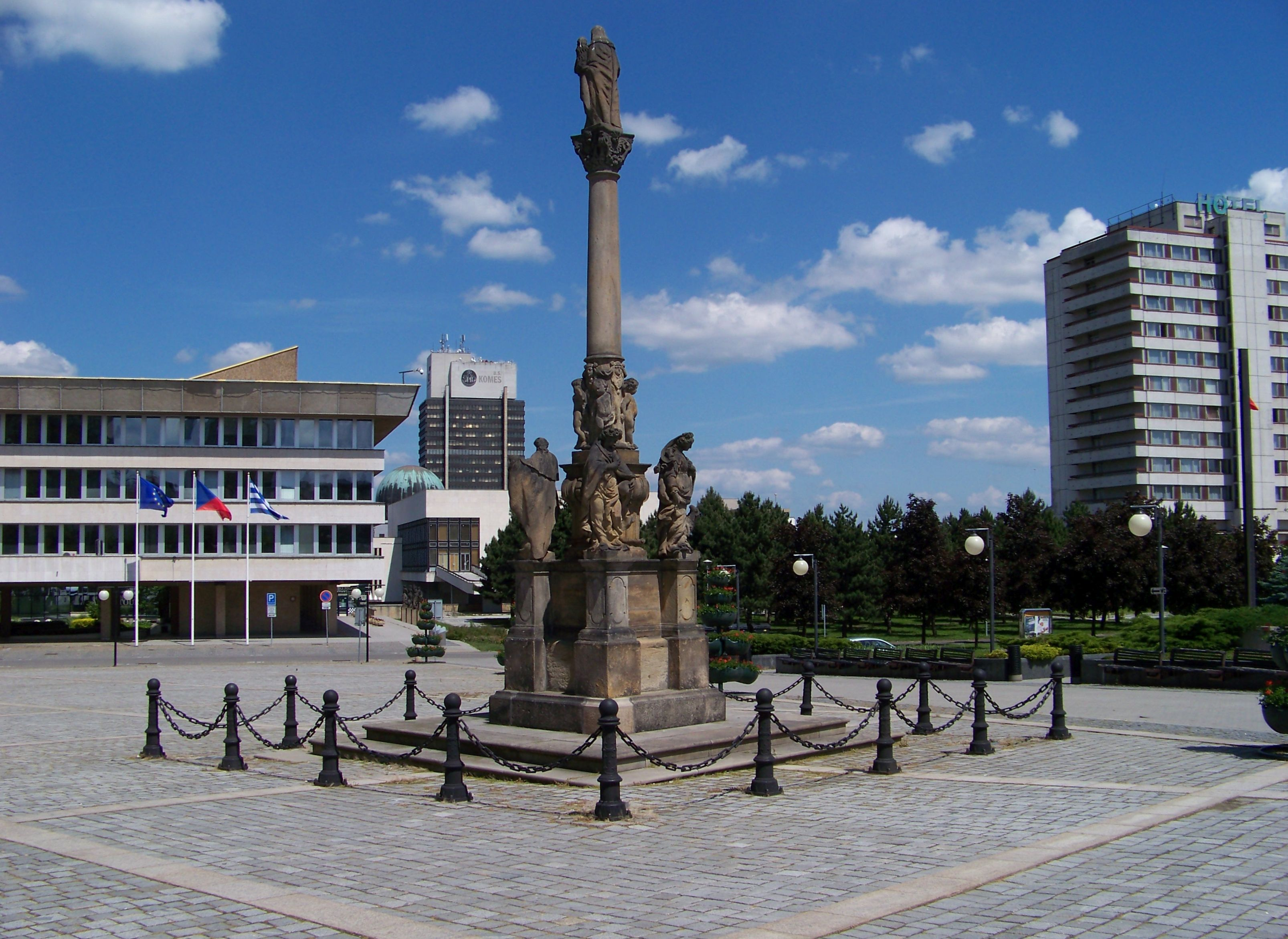 Most, Most District, Ústí nad Labem Region, Czech Republic. 1. náměstí, a plague column.